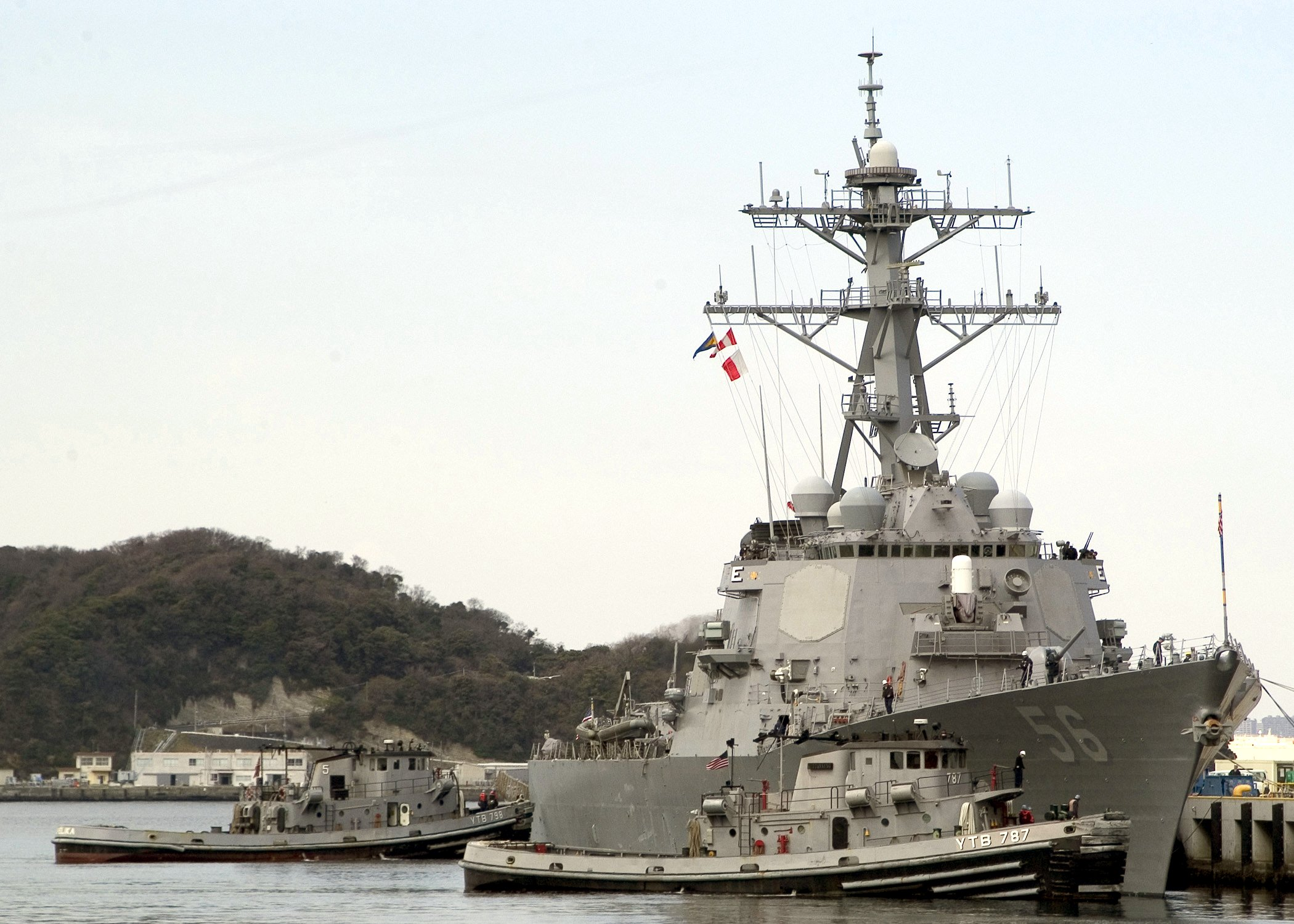 Kittanning (YTB 787) and Opelika (YTB-798) assist the Arleigh Burke-class guided-missile destroyer USS John S. McCain (DDG-56) away from the pier at Commander Fleet Activities Yokosuka, Japan (CFAY). US Navy photo # 070319-N-0483B-001 YOKOSUKA (19 March 2007) by MCSA Kari R. Bergman.